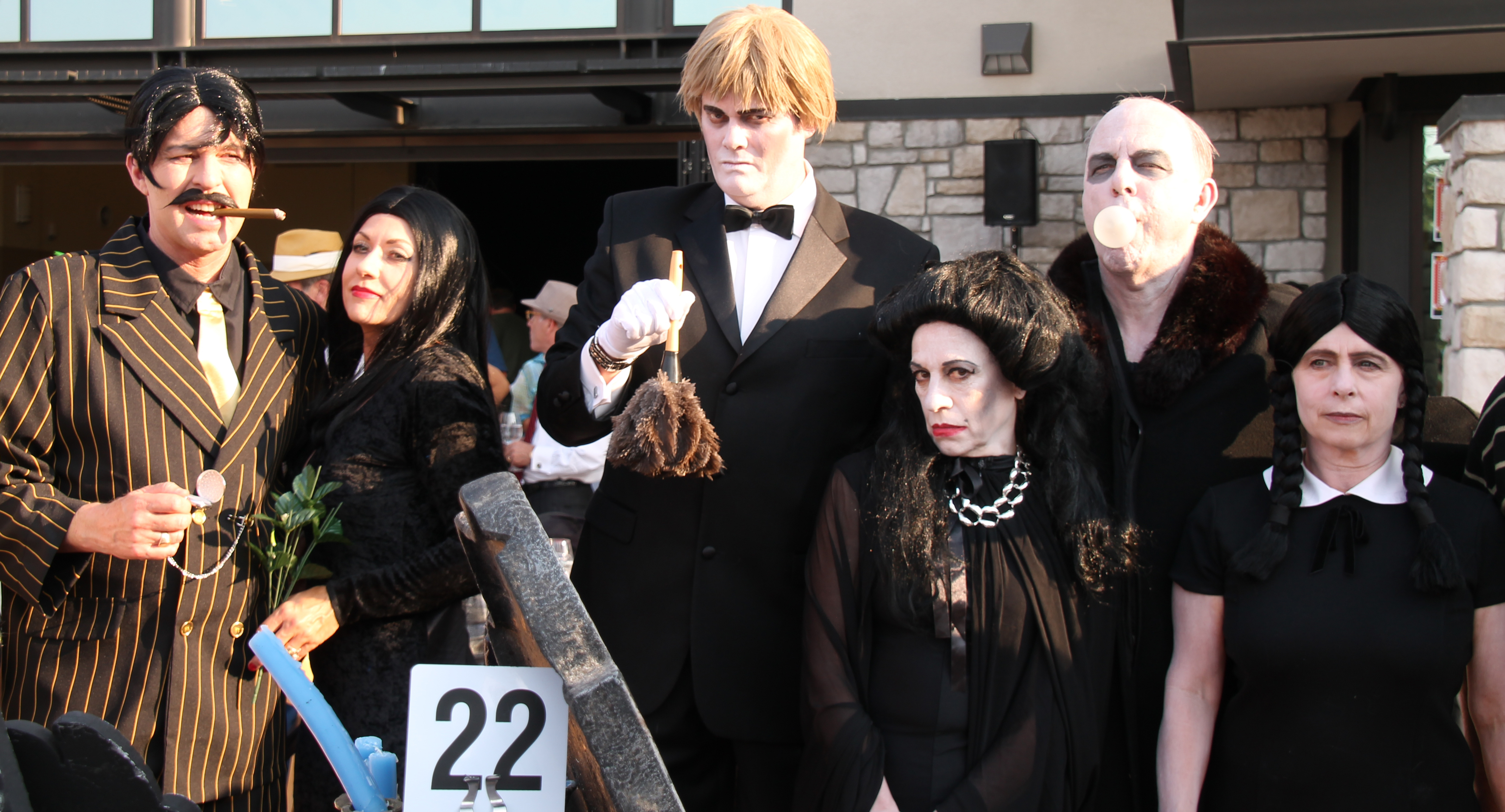 Rotarians dressed as the Addams Family at the 2015 Rotary Club of Sonoma Valley fundraiser in Sonoma, California